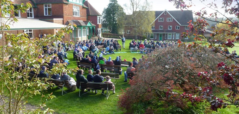 An outdoor meeting of the Darvell Bruderhof